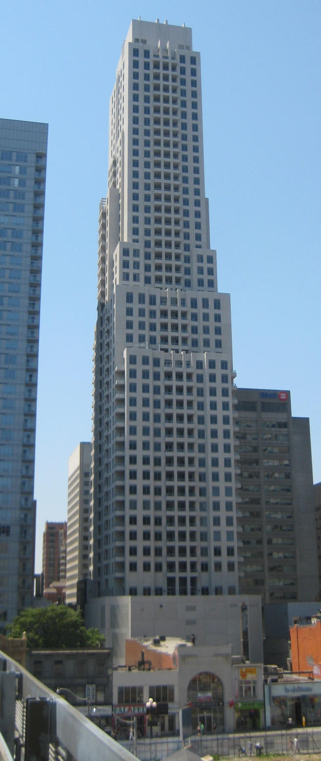 The Uptown Residences